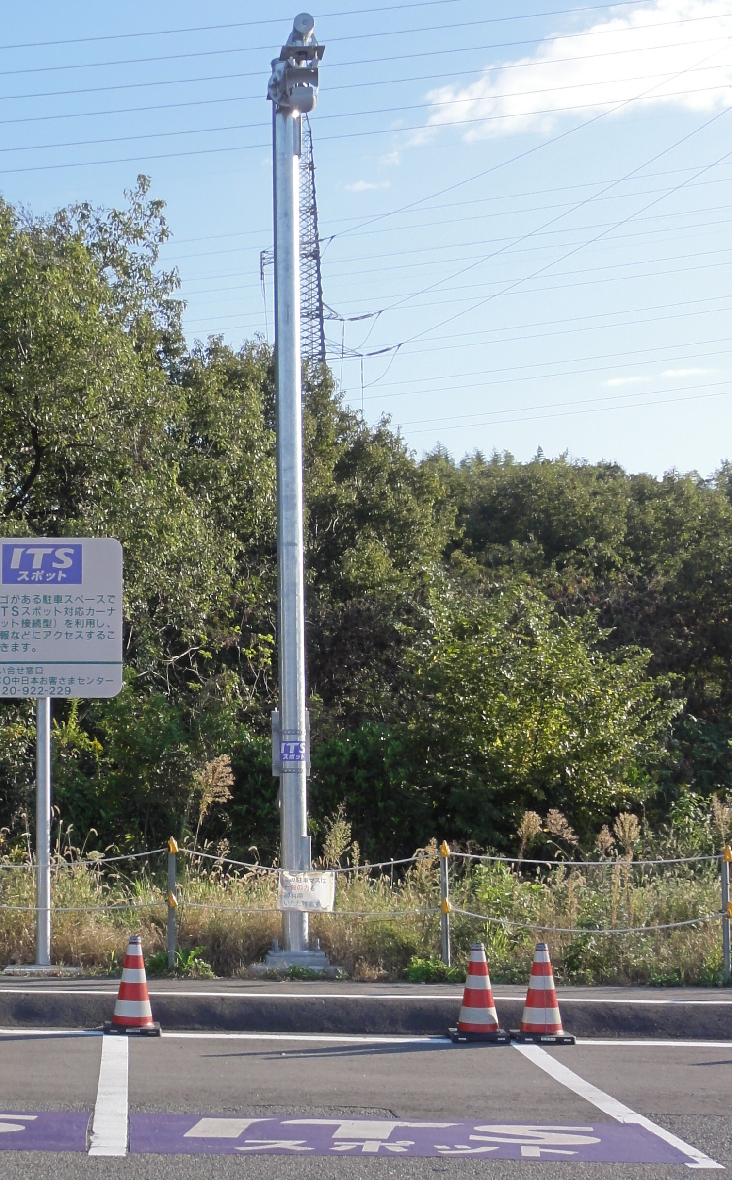 ITS spot in Gozaisyo SA,Mie Prefecture, Japan